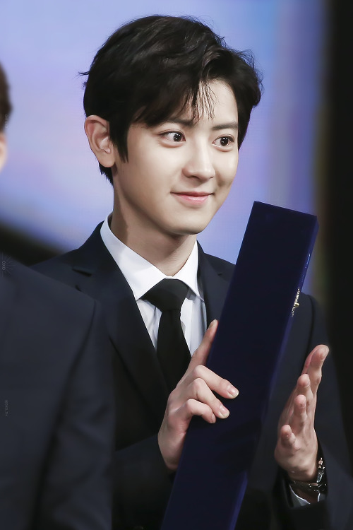 Park Chan-yeol at Pop Culture Art Award on November 3, 2017.